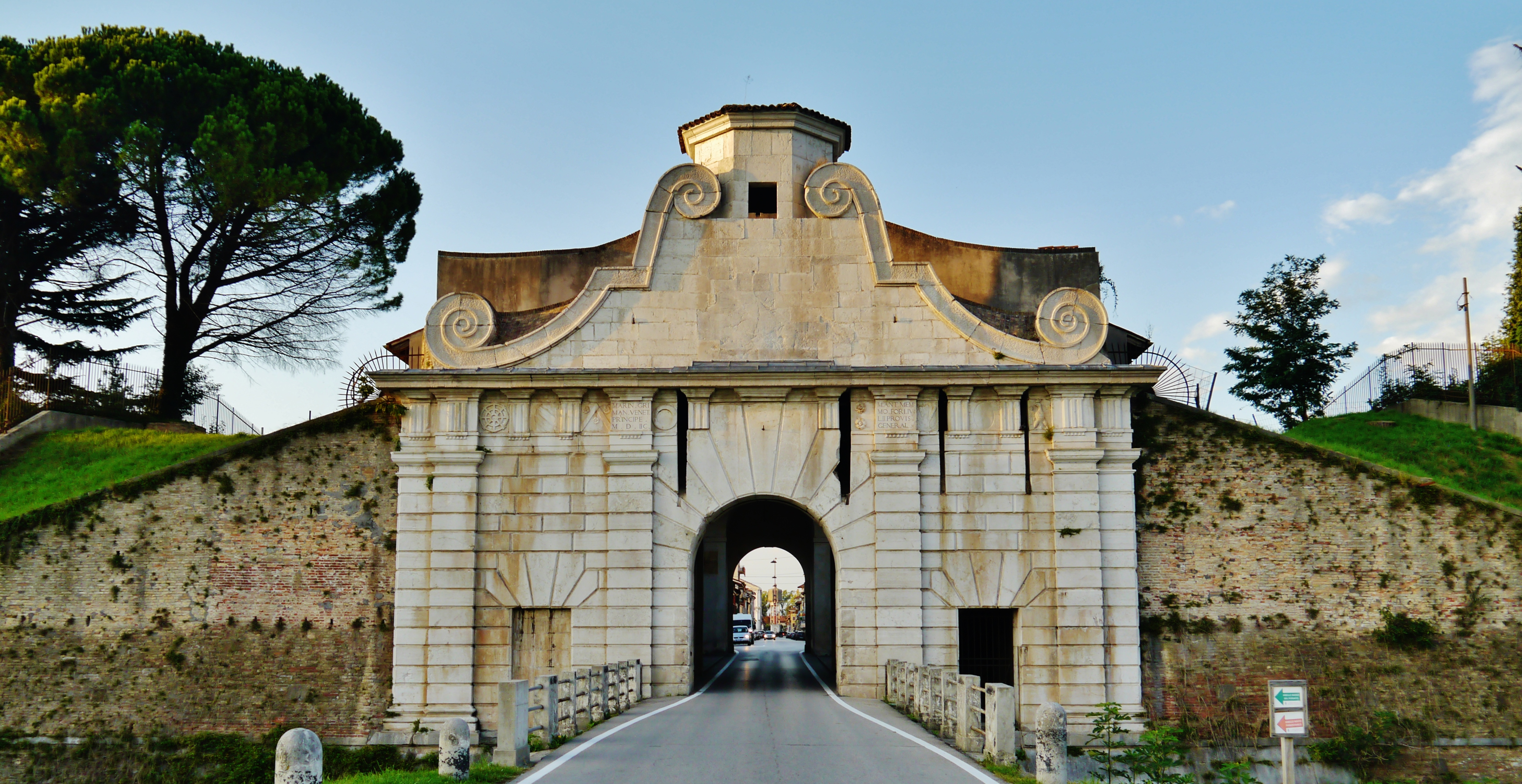 Aquileia Gate, Palmanova, Friuli-Venezia Giulia, Italy